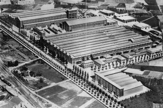 Fábrica de Sant Andreu (1917)